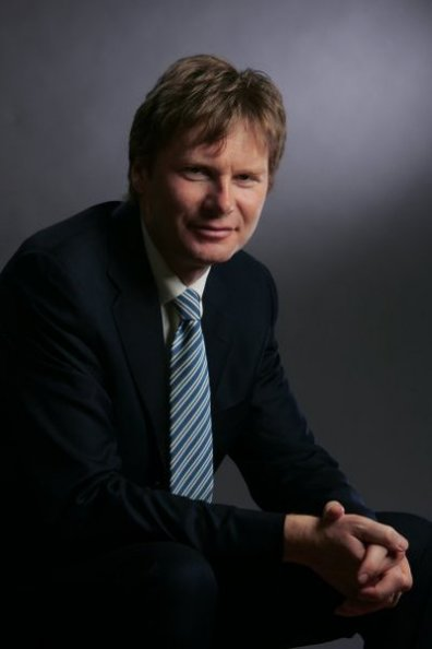 Gabor Fodor, Politican, Alliance of Free Democrats (SZDSZ), The Hungarian Liberal Party